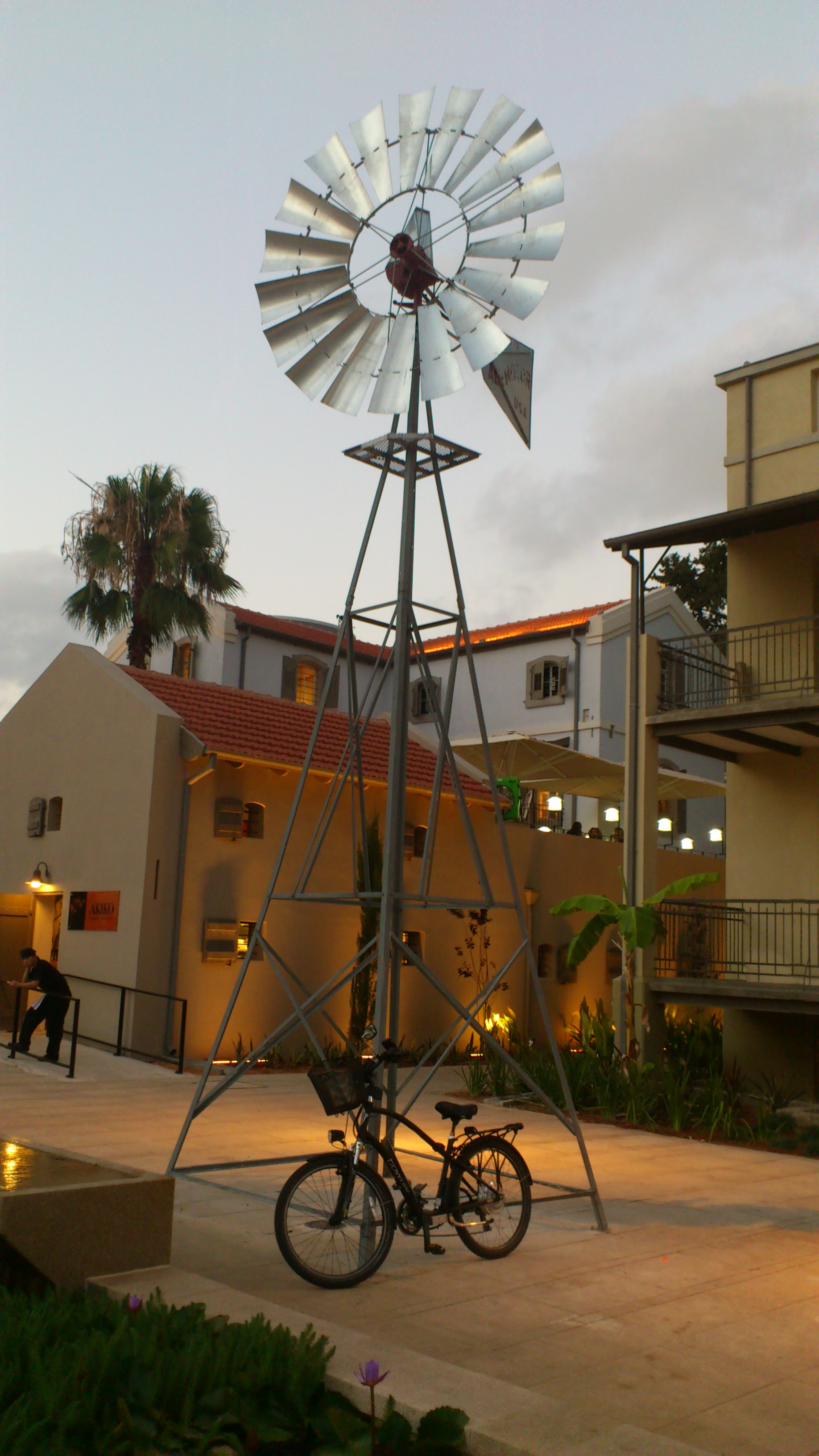 Category:Sarona